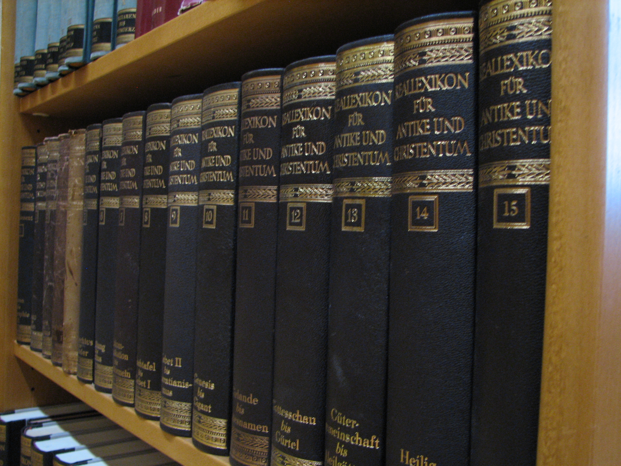 Reallexikon für Antike und Christentum. Anton Hiersemann Verlag 1950-.